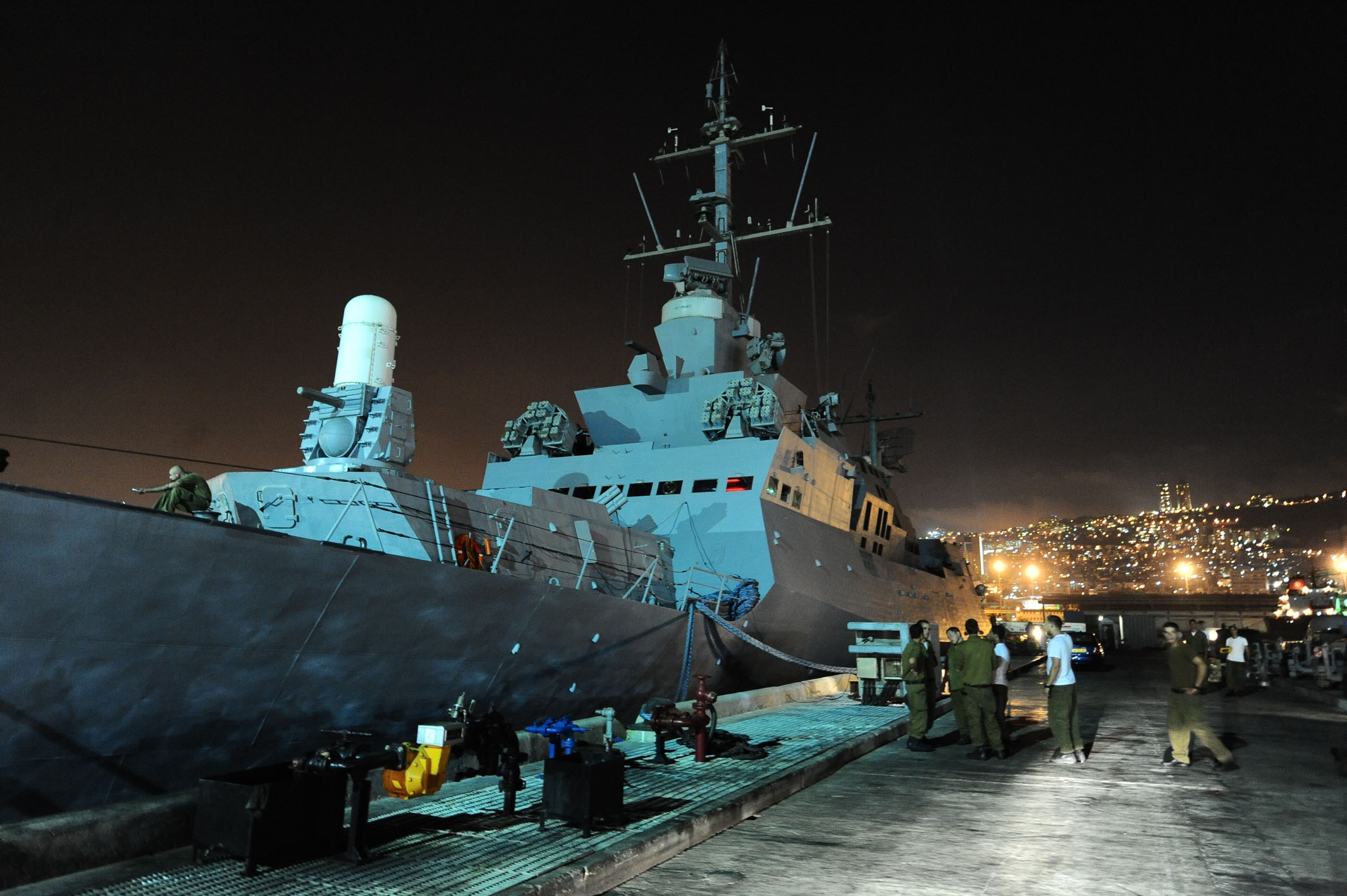 May 29, 2010. IDF Naval Forces prepare to implement the Israeli government's decision to prevent the flotilla from breaching the maritime closure on the Gaza Strip. In order to verify that cargo does not contain any materials which could be used by the Hamas government against the citizens of Israel, all materials transferred to Gaza are first inspected. Photography: SSgt. Michael Shvadron, IDF Spokesperson's Unit.